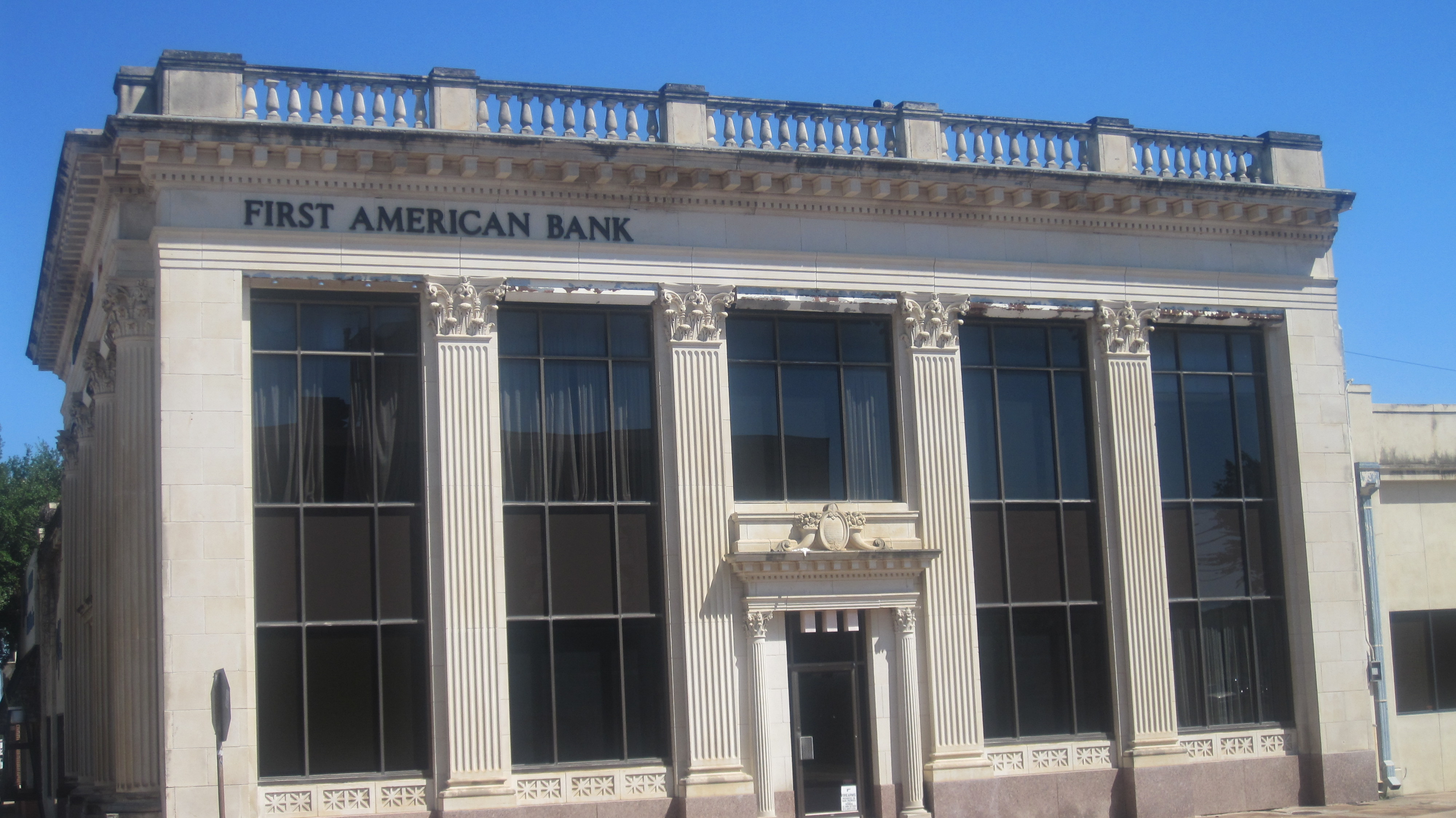 First American Bank in Ranger, TX.